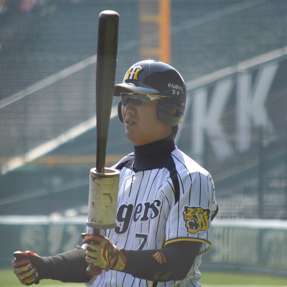 Tsuyoshi Nishioka, infielder of the Hanshin Tigers, at Hanshin Koshien Stadium.